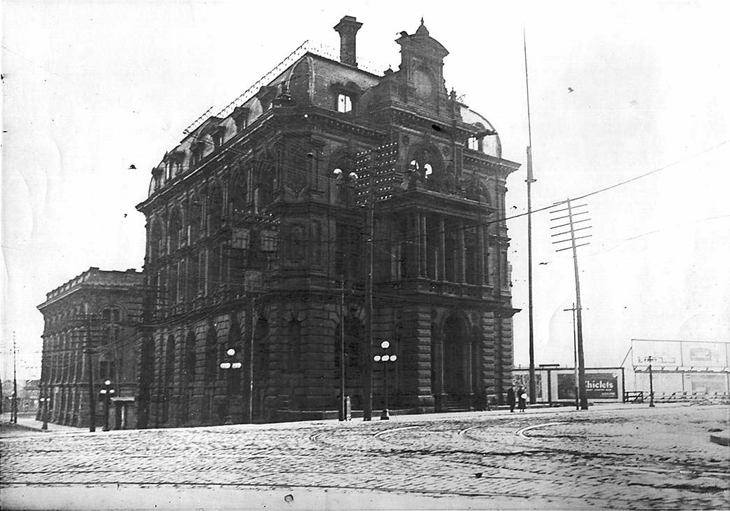 The Customs House on the southwest corner of Front and Yonge Streets, Toronto, Canada.